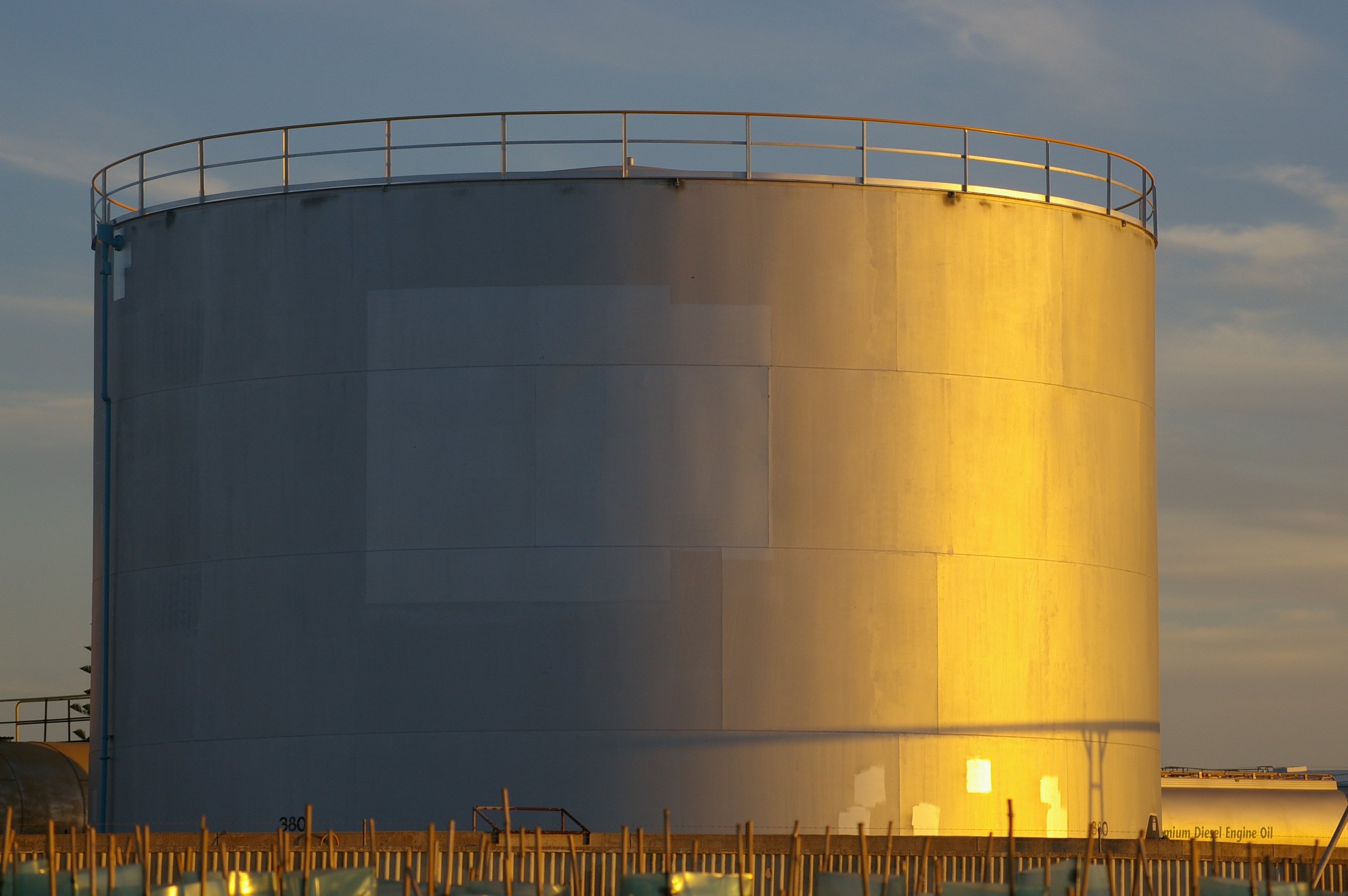 Fuel storage tank, North Fremanlte in the jointly operated Caltex, Shell Terminal. Approxiamate capacity is 2,000,000 litres, the blue pipe is for fire suppressant used to discharge firefighting foam directly onto the fuel. product pipework is all at the bottom of tank as during filling and discharging this reduces the incidents of static buildup, with it the potential for fire.